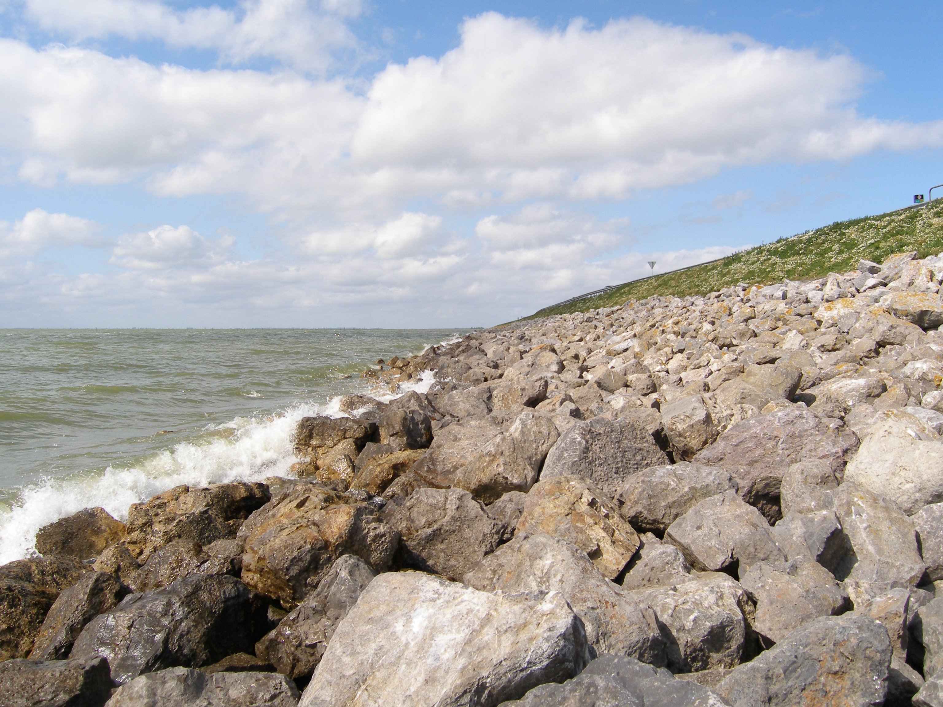 The Houtribdijk, the dike that separates the Mark Schokker from the IJsselmeer.